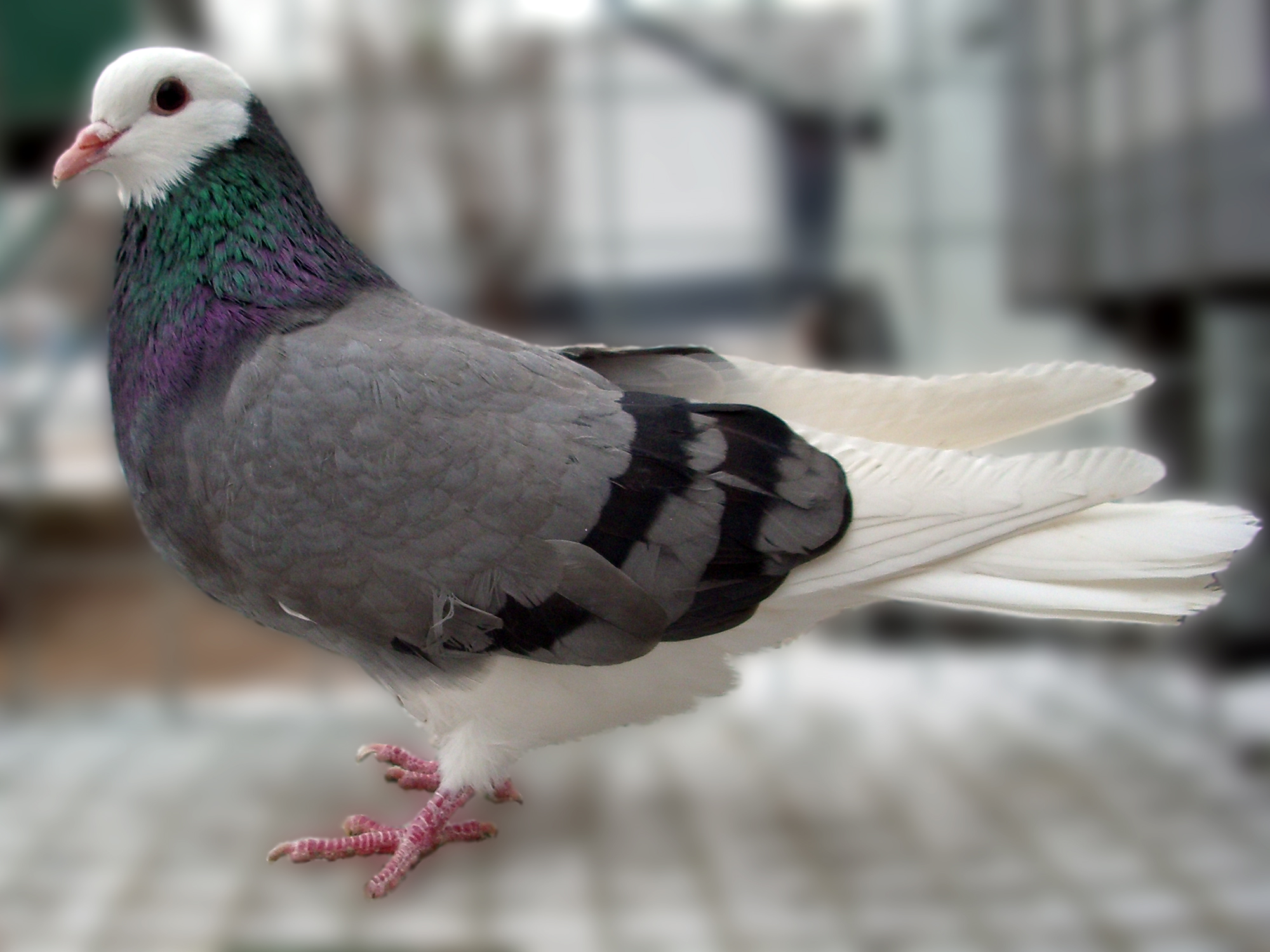 Permian High-flying Mottled Blue Rock White-headed Pigeon